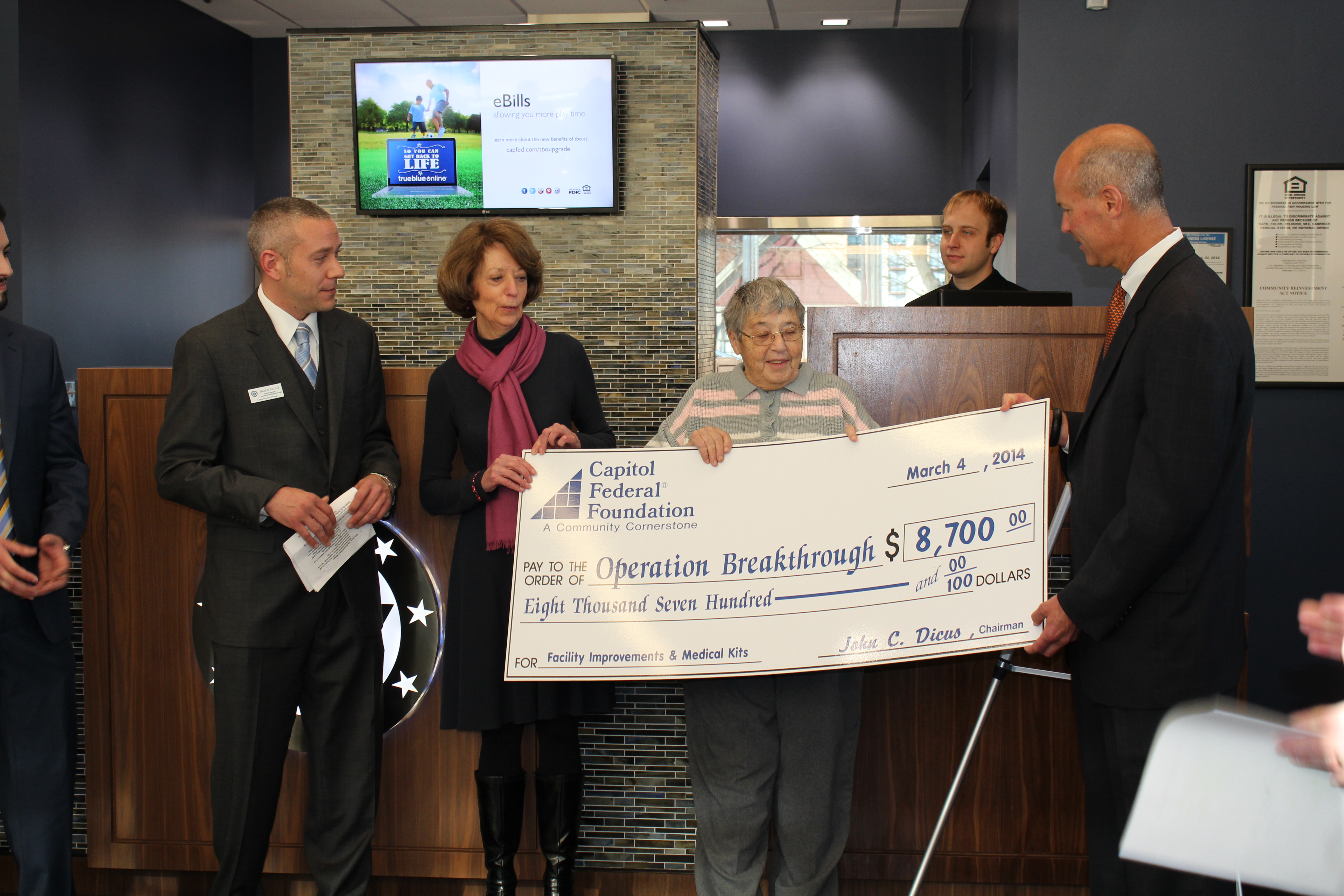 The Capitol Federal Foundation benefits the communities in which it operates through various charitable contributions.